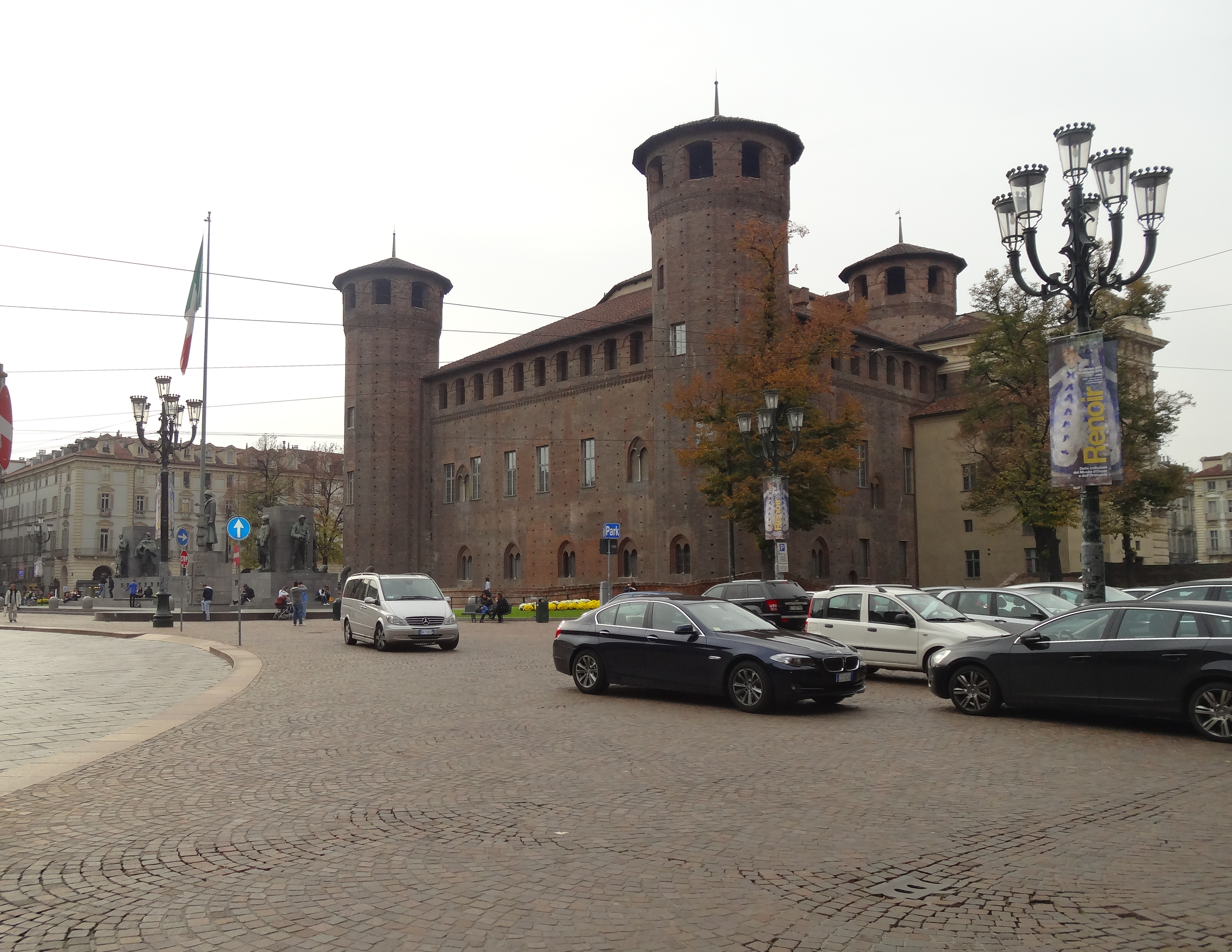 Torino